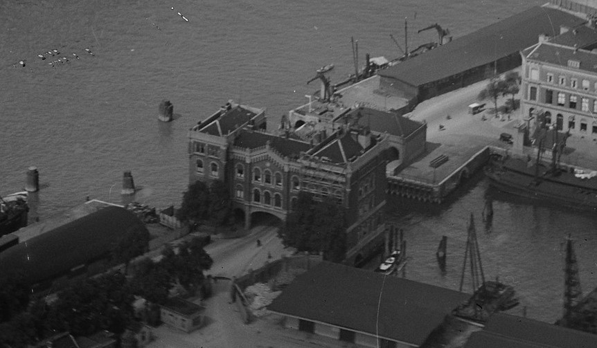 Aerial photograph of Rotterdam, The Netherlands